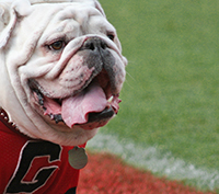 "Uga VI" - University of Georgia Official Georgia Bulldog Mascot